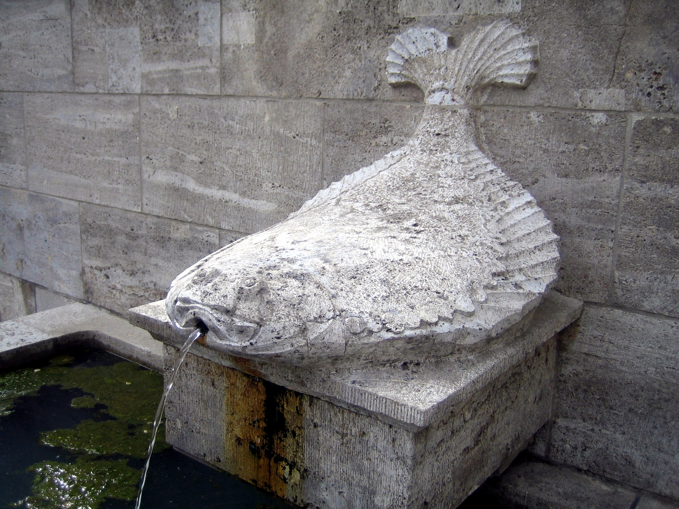 .Fountain at the "Lustgarten" in Berlin-Mitte/Germany. Created 1916 by Robert Schirmer. Detail.